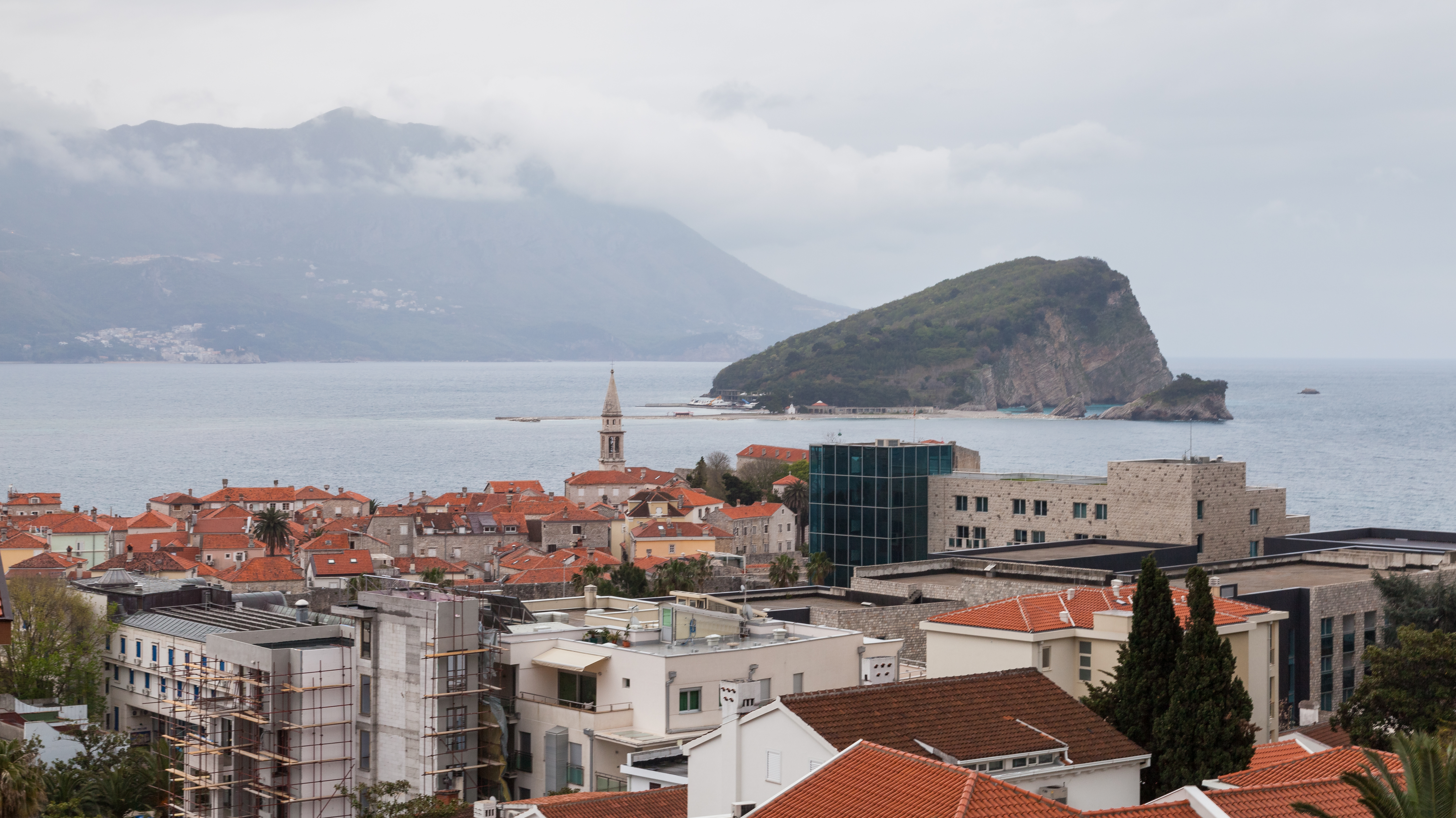 Budva, Montenegro